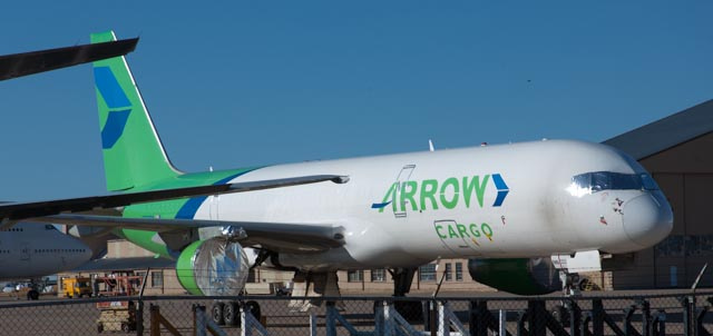 I passed through Roswell, New Mexico early one morning in February 2012; nothing was open yet so I didn't linger. I might have to pop back there some time. One thing that I did not realize, but Roswell also has a large airline bone yard at the airport. The bad thing is a lot of the planes are blocked from view - what a waste - in my humble opinion there would be a market for tour operators to take photo buffs out on the flight line to check the airliners sitting there - just saying!